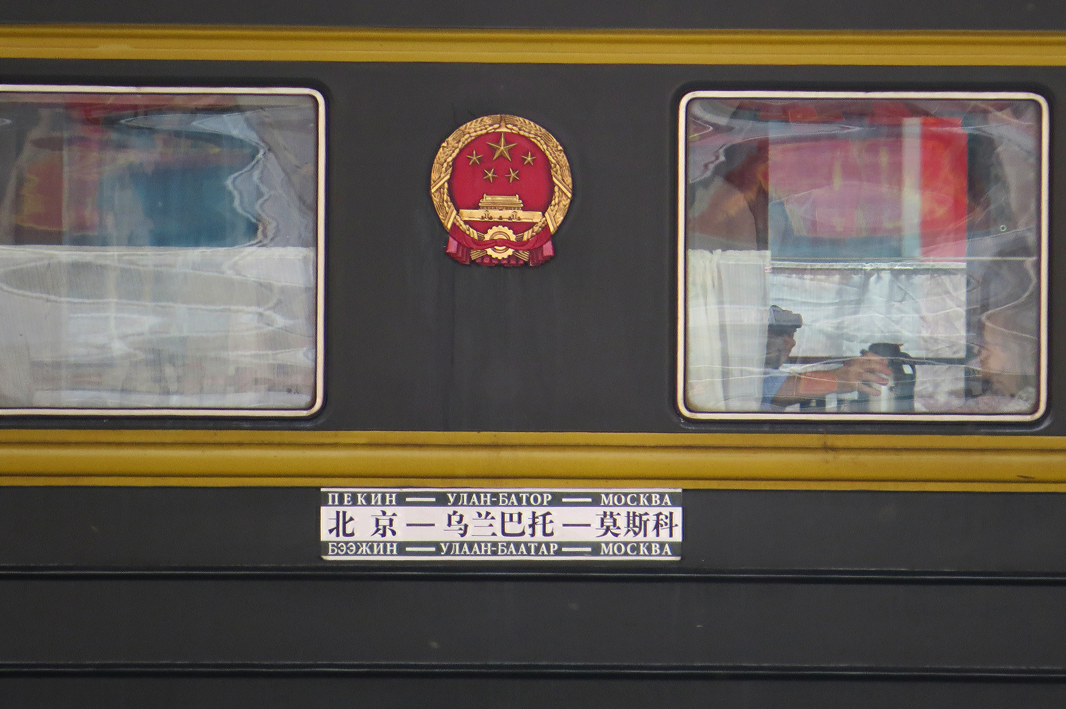 More formal shot via the small gate.